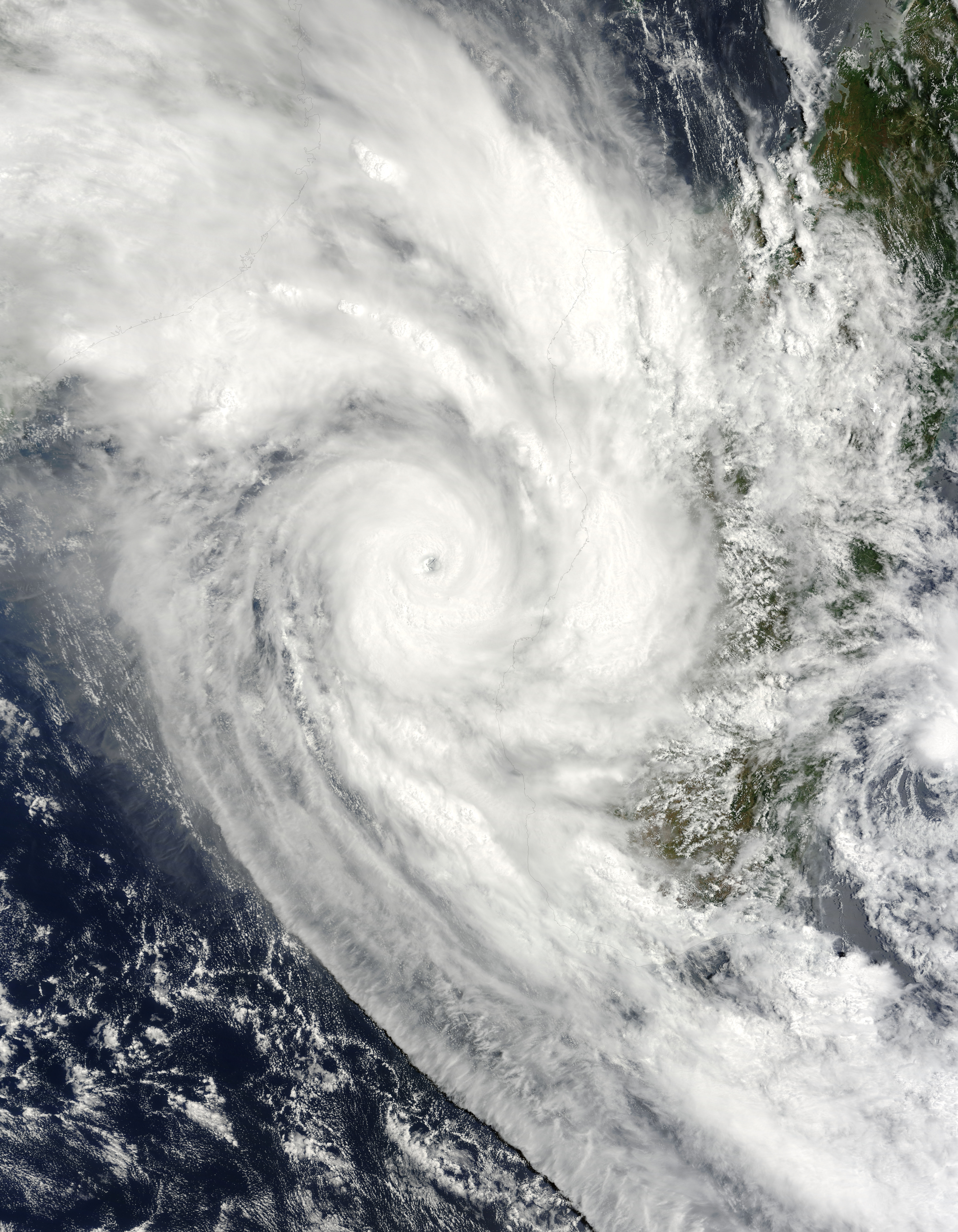 Intense Tropical Cyclone Fanele near peak intensity on January 20, 2009.